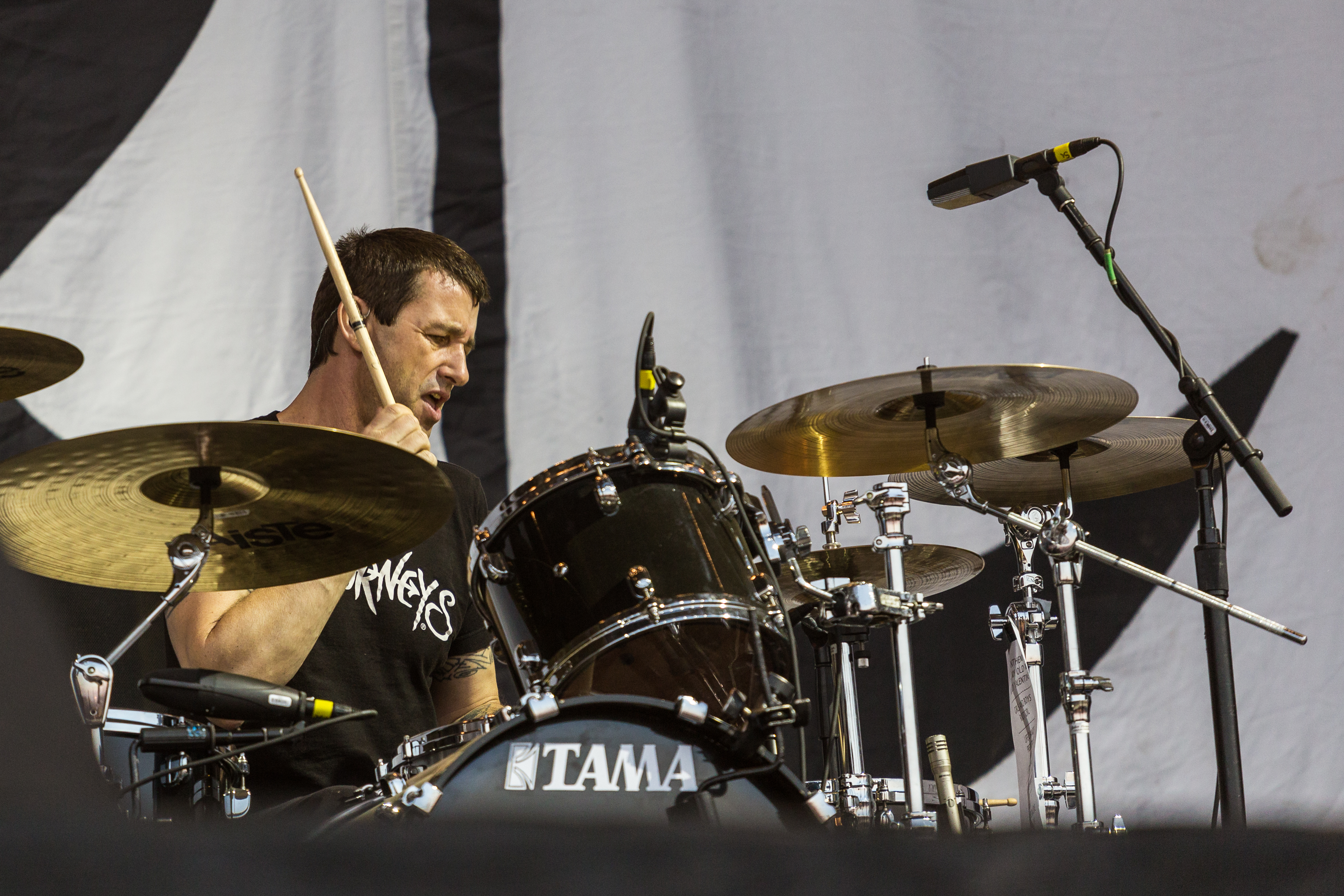 Nova Rock 2017 Dean Butterworth from Good Charlotte at the Nova Rock 2017